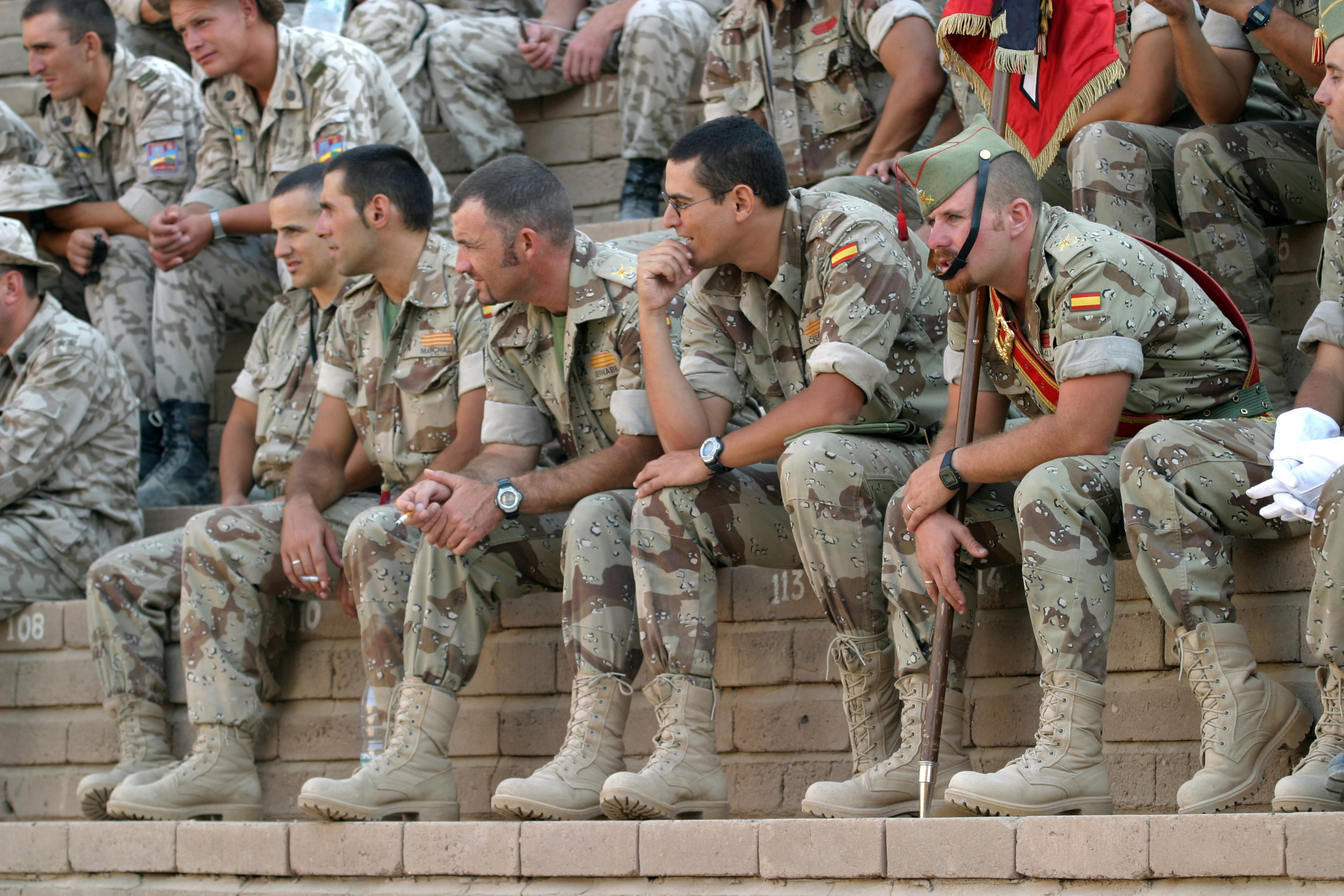 Spanish legionaries (seated front row center) are among the Multinational Coalition Forces on hand to witness the Relief in Place (RIP) Ceremony as US Marine Corps (USMC) Marines assigned to the 1st Marine Expeditionary Force (I MEF) relinquish authority to the Polish lead Coalition Forces, during a ceremony held inside the amphitheater at Camp Babylon, Iraq, during Operation IRAQI FREEDOM.